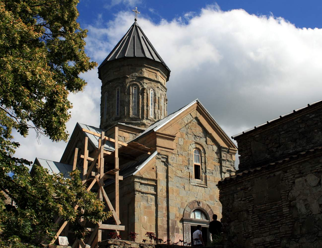 Martkopi monastery. 'Gvtaeba' church